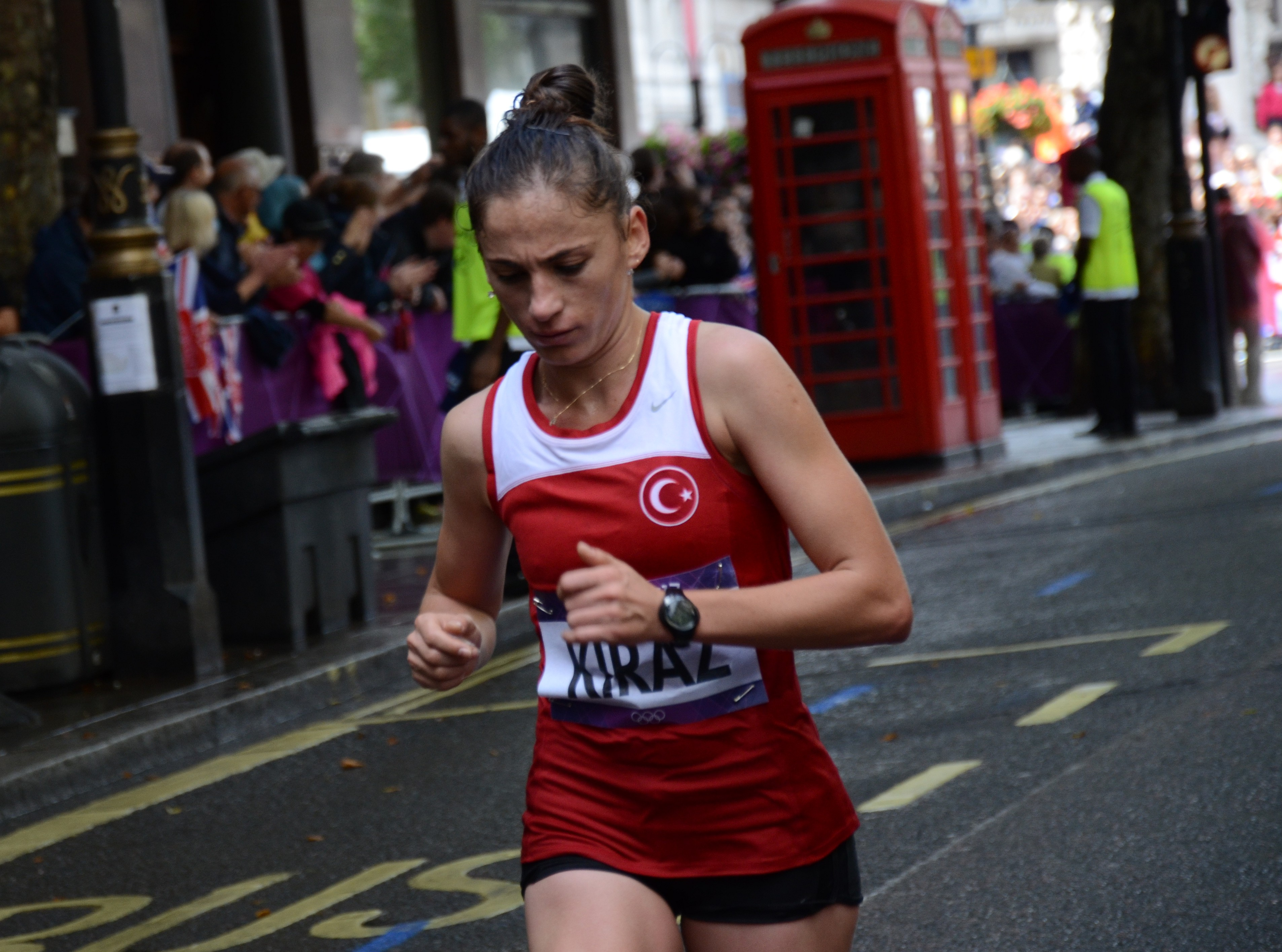 Ümmü Kiraz (Turkey) in the marathon (w) at the Olympic Games 2012